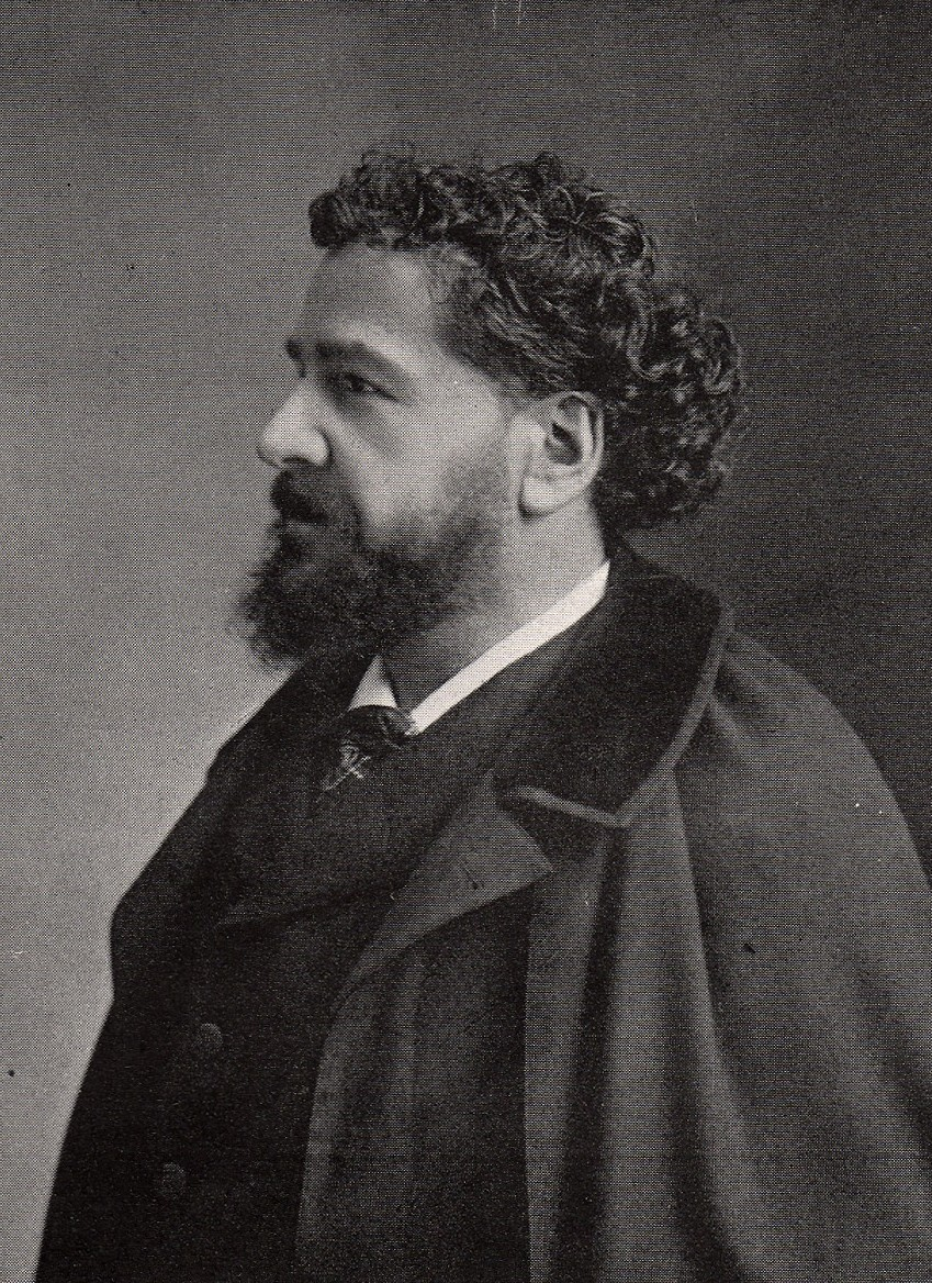 Octave Uzanne in 1908